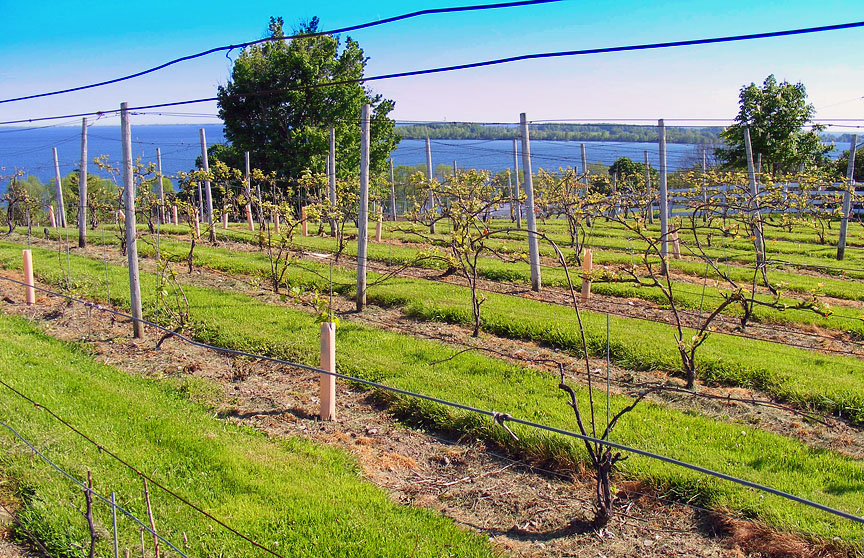 Vineyard-Waupoos-Prince Edward County-Ontario-[foto by paul b. toman]